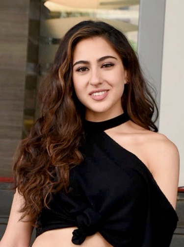 Sara Ali Khan at the Simmba trailer launch, 2018